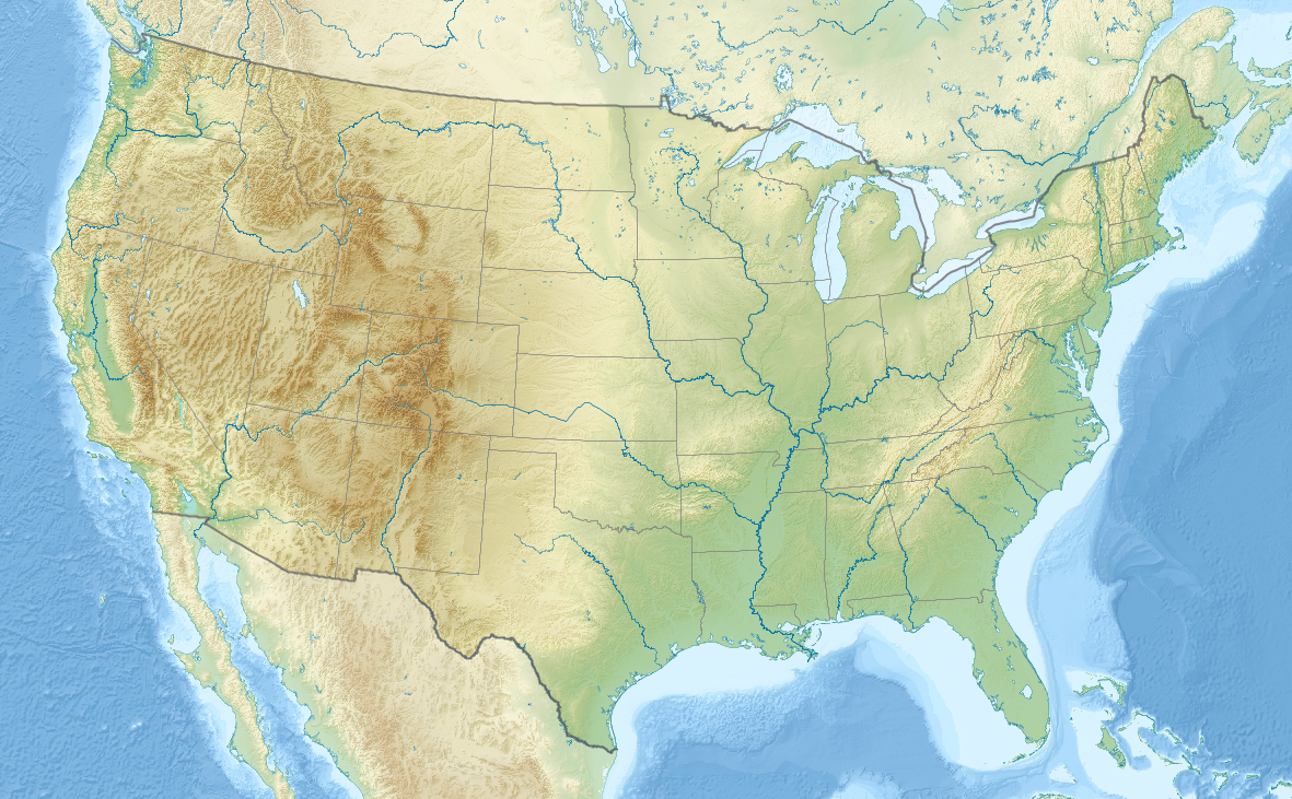 Relief location map of the USA (without Hawaii and Alaska). EquiDistantConicProjection : Central parallel : * N: 37.0° N Central meridian : * E: 96.0° W Standard parallels: * 1: 32.0° N * 2: 42.0° N Made with Natural Earth. Free vector and raster map data @ . Formulas for x and y: x = 50.0 + 124.03149777329222 * ((1.9694462586094064-( {2 }* pi / 180)) * sin(0.6010514667026994 * ( {3 } + 96) * pi / 180)) y = 50.0 + 1.6155950752393982 * 124.03149777329222 * 0.02613325650382181 - 1.6155950752393982 * 124.03149777329222 * (1.3236744353715044 - (1.9694462586094064-( {2 }* pi / 180)) * cos(0.6010514667026994 * ( {3 } + 96) * pi / 180))